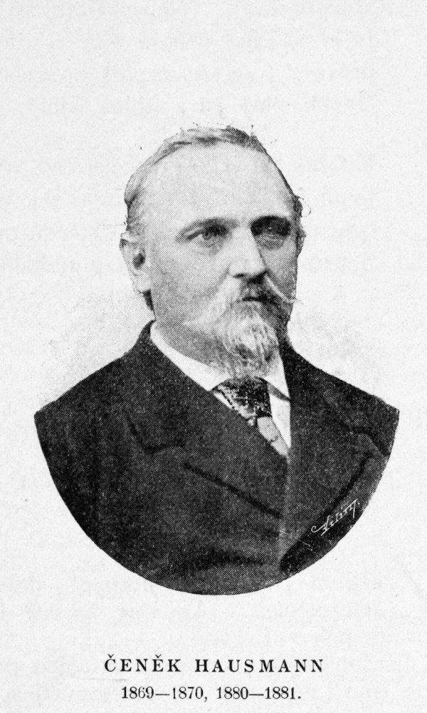 Čeněk Hausmann (1826–1896) was a Czech matematician and engineer.